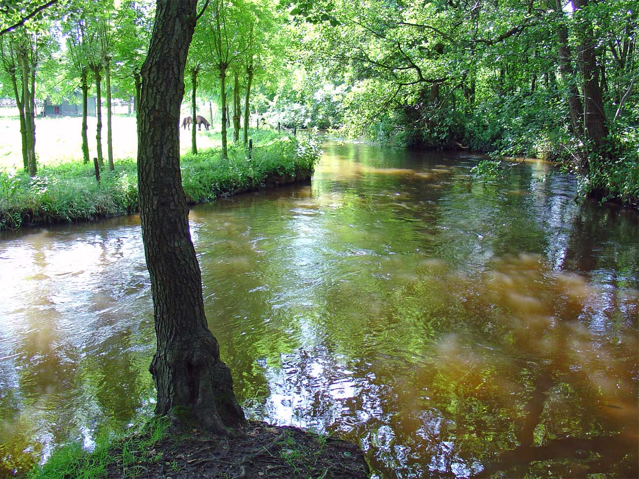 De rivier de Swalm bij Swalmen (The river Swalm at Swalmen in the Netherlands)